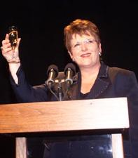 United States President Bill Clinton and New Zealand Prime Minister Jenny Shipley join in a toast during a gala at the Royal New Zealand Air Force Museum in Christchurch. September 15, 1999 photo by David Scull (crop)